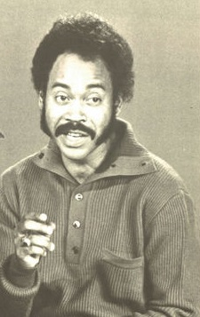 Matt Robinson in 1970